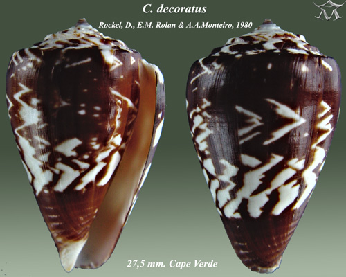 Conus decoratus1